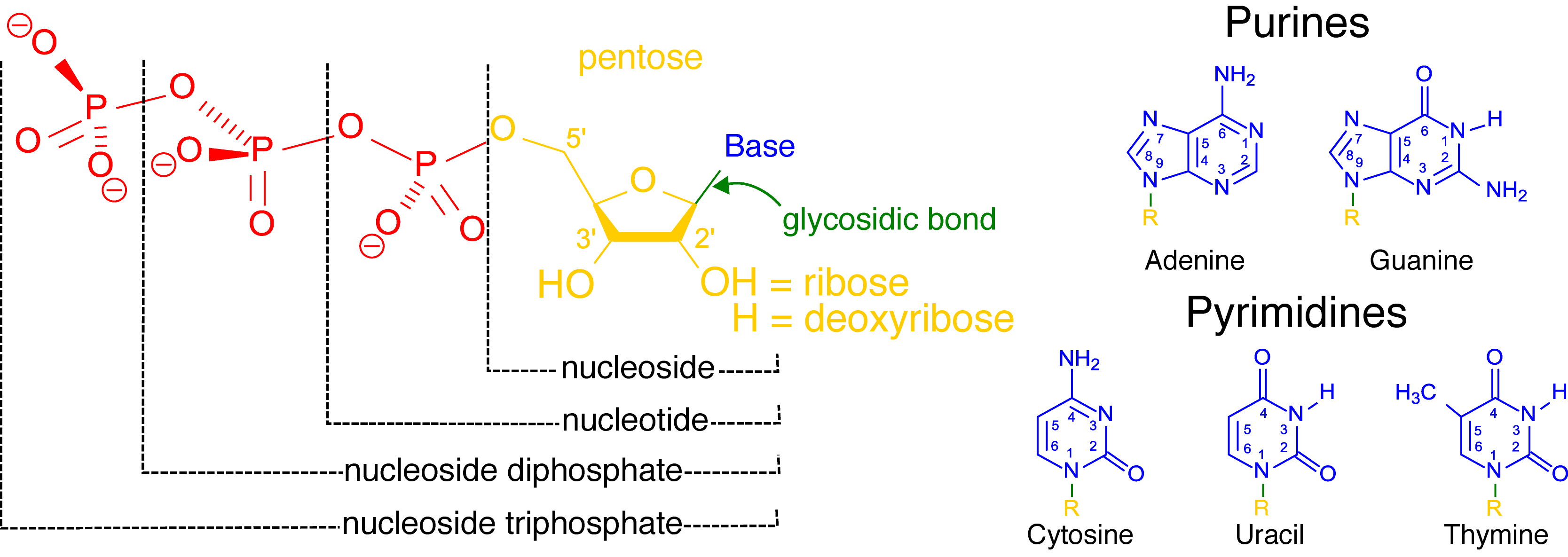 The major nucleotides